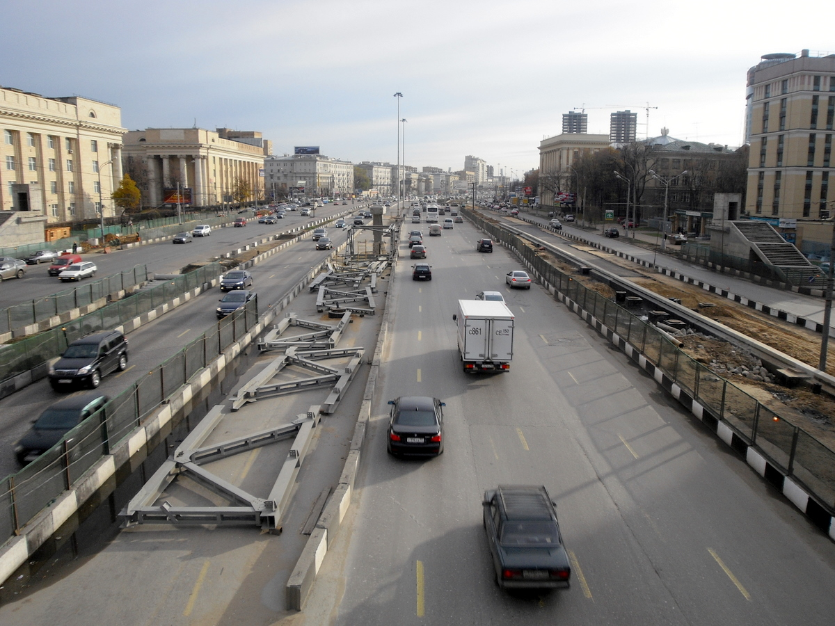 Leningradsky Prospekt Reconstruction